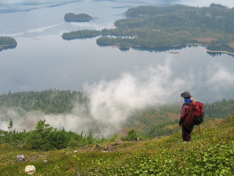 Erin McKittrick, Ground Truth Trekking, own work